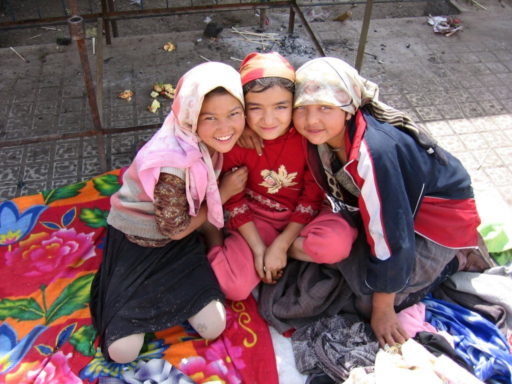 Khotan (Hotan / Hetian) is an oasis city in the Xinjiang Uygur Autonomous Region of the People's Republic of China. Uyghur people at sunday market.